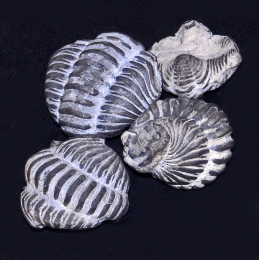 Fossils of Calymene niagarensis from Ohio, United States, on display at Gallery of Paleontology and Comparative Anatomy, Paris.